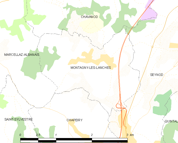 Map of French municipality Montagny-les-Lanches